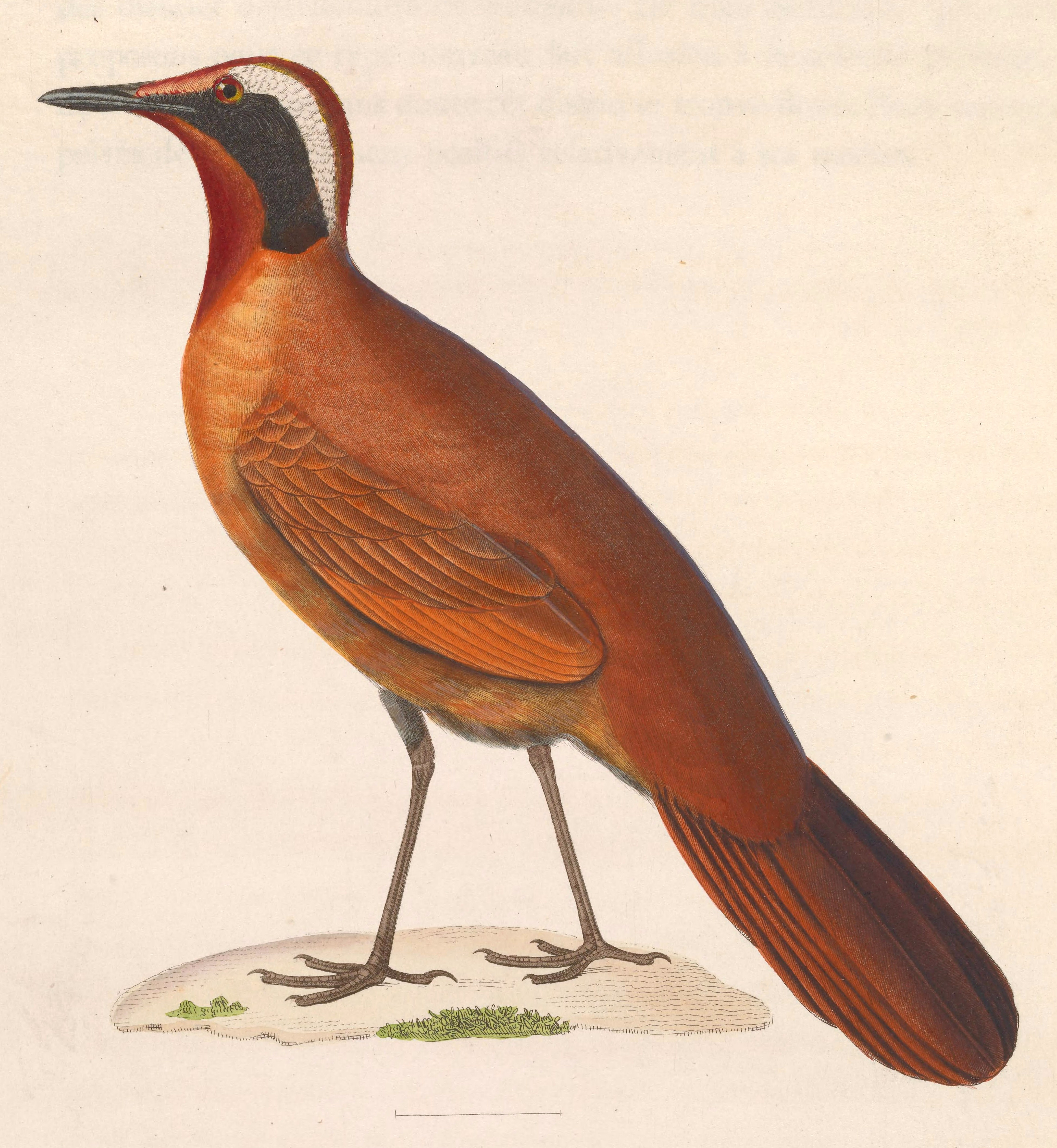 « Eupetes macrocerus » = Eupetes macrocerus (Rail-babbler) - adult